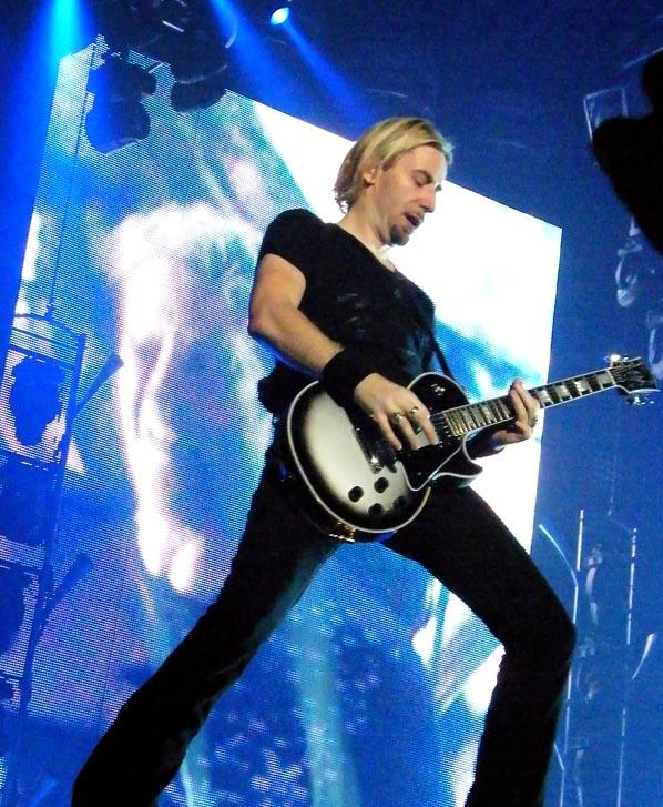 Nickelback leading member Chad Kroeger.